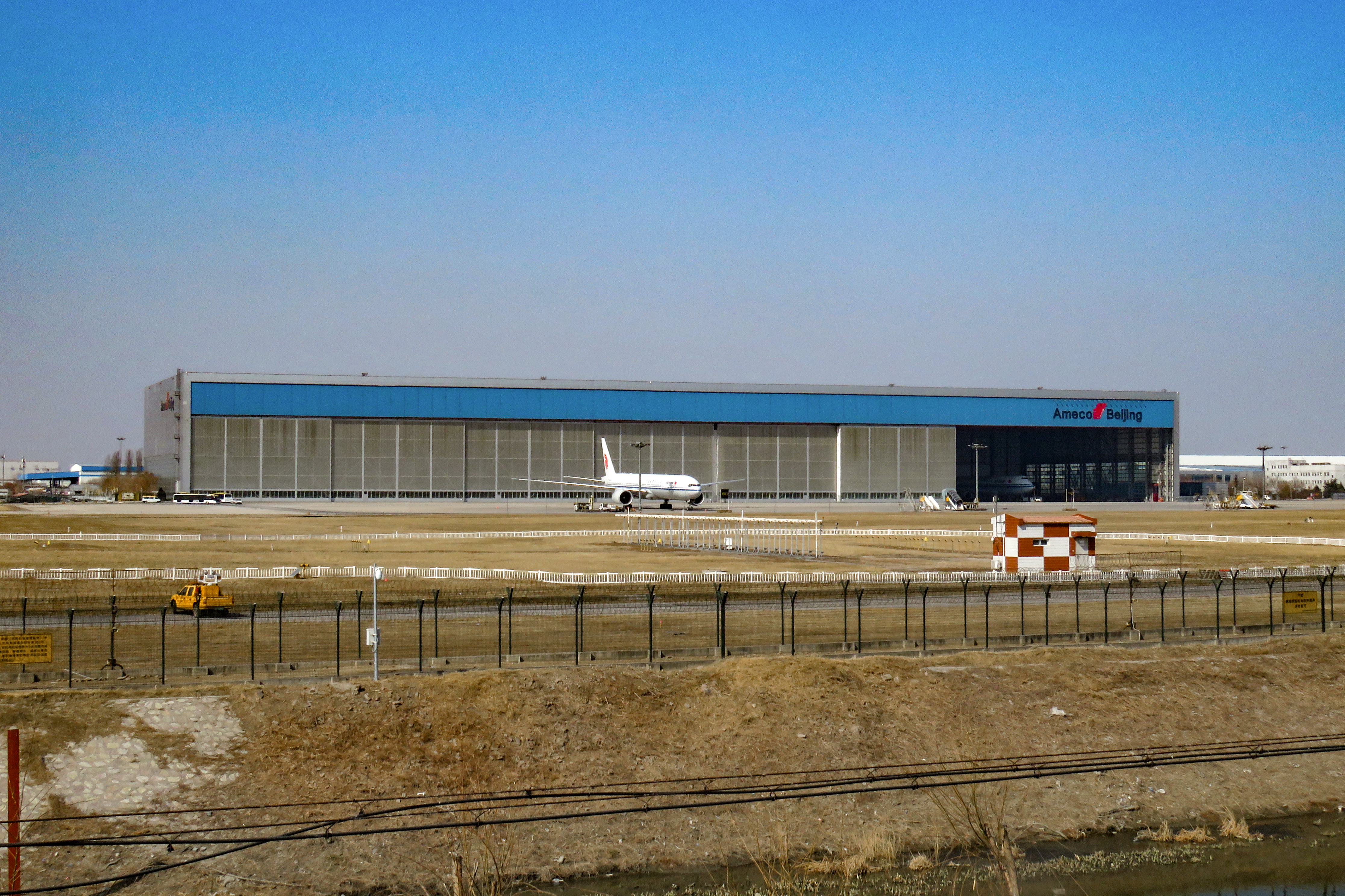 This hangar is built in 2008, before the Beijing Olympics. Air China doesn't have A380s, but LH may fly its A380 for maintenance here.